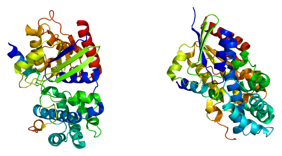 Structure of the RGS14 protein. Based on PyMOL rendering of PDB 1kjy.